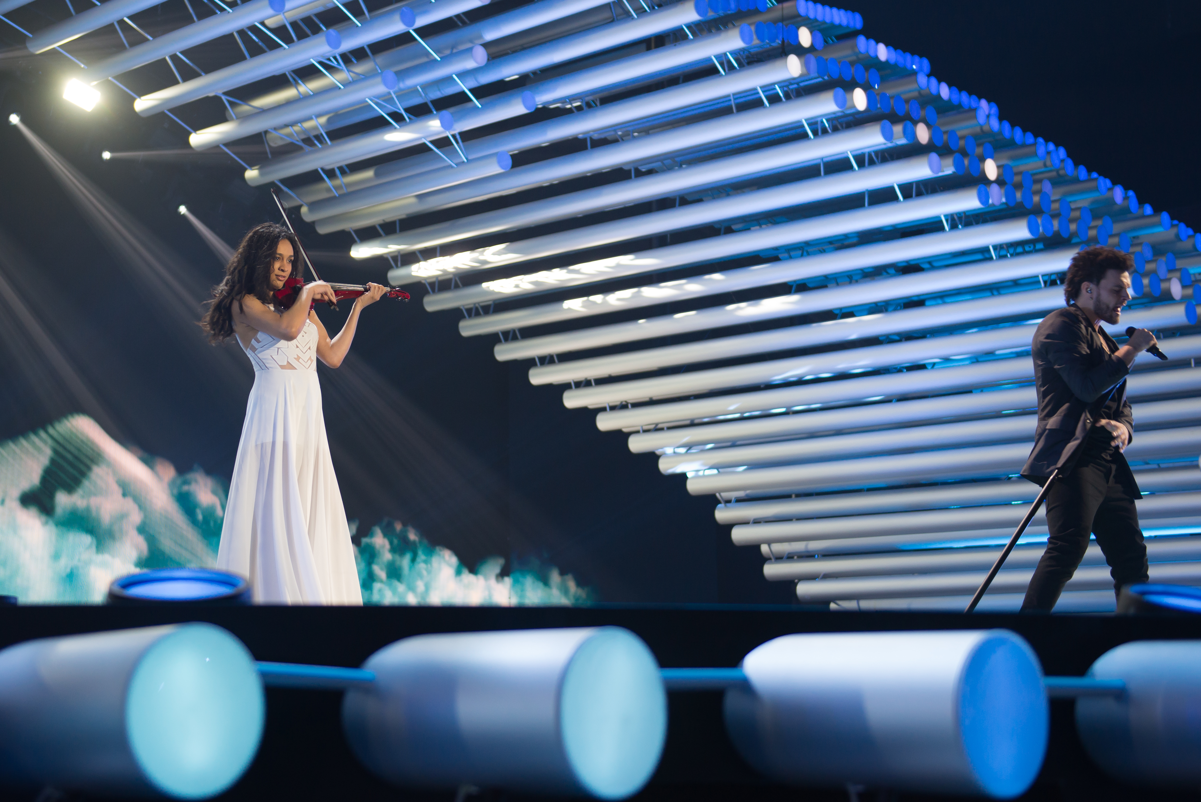 Eurovision Song Contest Vienna 2015: Uzari & Maimuna, Belarus